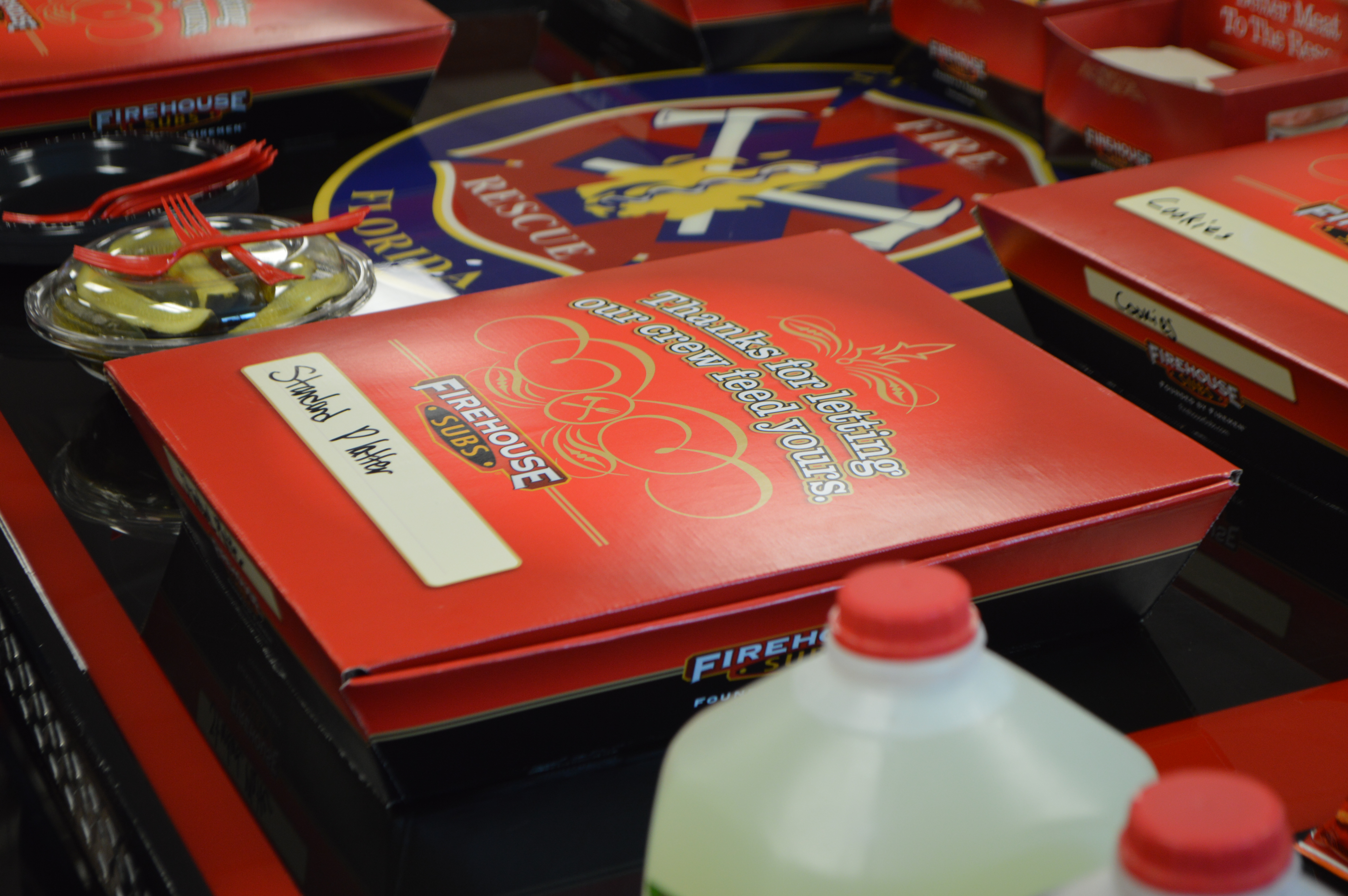 An example of Firehouse Subs catering platter, delivered to a Florida Fire Department.